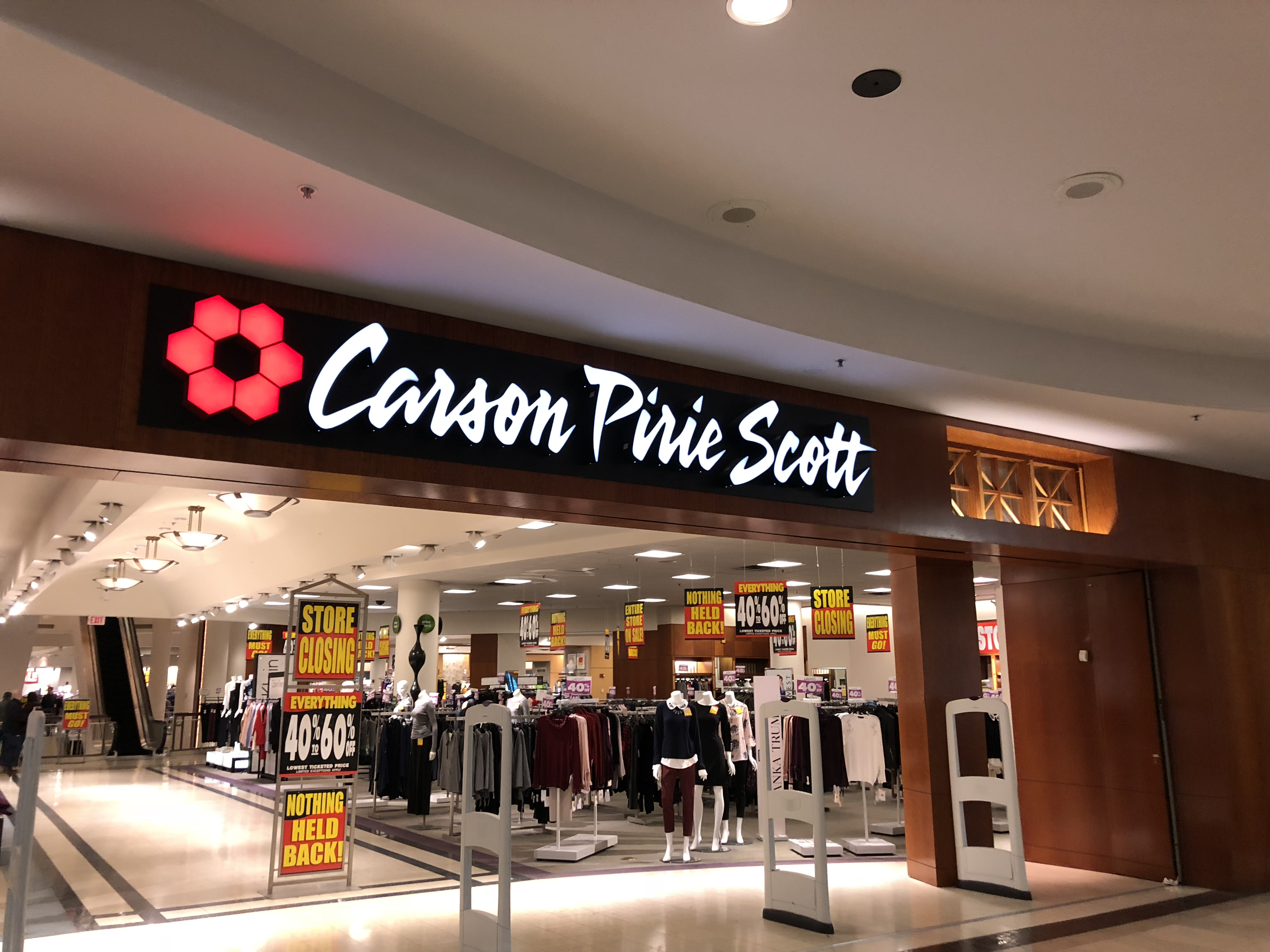 Carson Pirie Scott store at Circle Centre Mall in February 2018, shown with "store closing" sign.